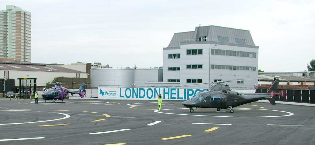 London Heliport - Battersea - London - photo by and copyright Tagishsimon - 3 June 2004.